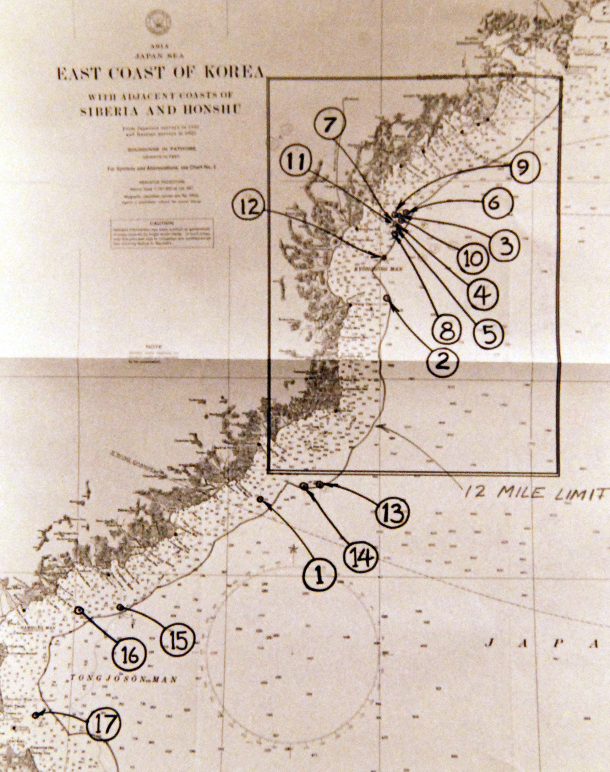 428-GX-USN-1140171: Chart prepared for us by the Court of Inquiry on the capture of USS Pueblo (AGER-2). The chart shows the alleged 17 points of violation on the territorial waters claimed by the North Koreans during the period of capture on January 15-24, 1968. Captain Lloyd M. Bucher, Commanding Officer of Pueblo, denied each alleged violation, January 1969. Official U.S. Navy Photograph, now in the collections of the National Archives. (2017/05/23). Photographed from reference card.